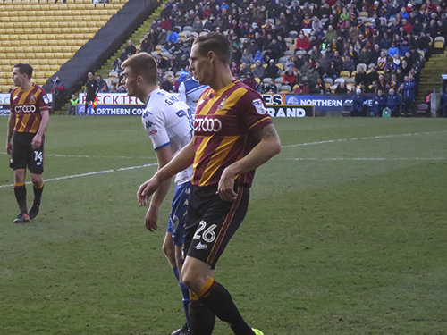 Matthew Kilgallon